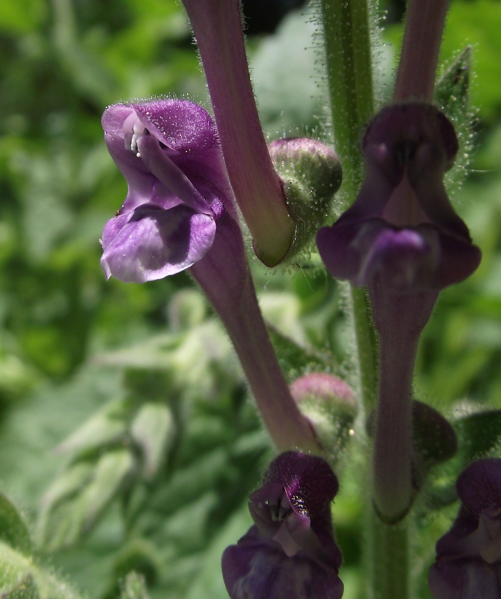 Scutellaria columnae in the UC Botanical Garden, Berkeley, California, USA. Identified by sign.